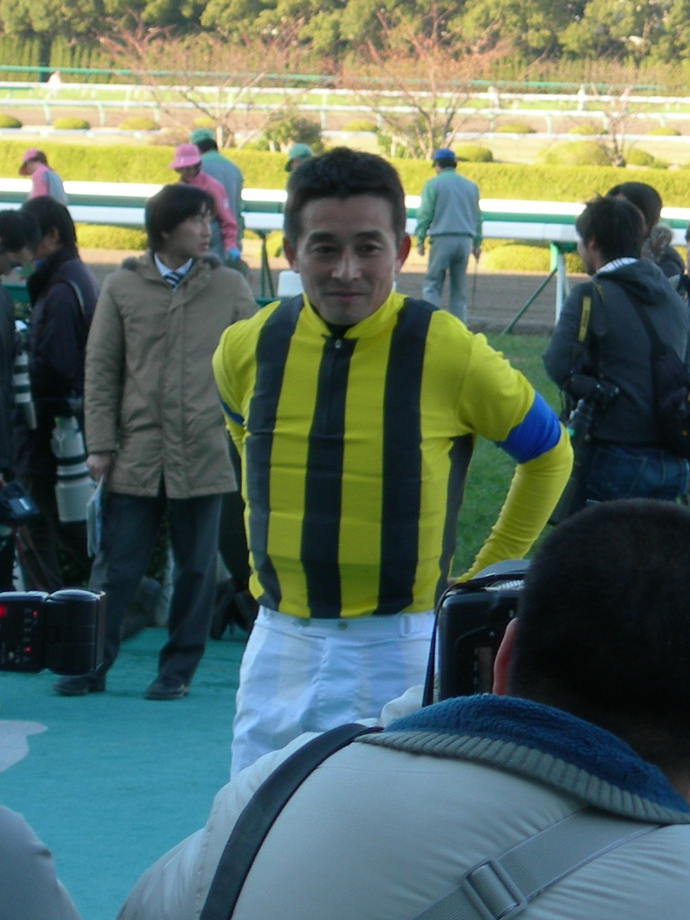 Isao Sugawara (Former Japanese jockey. Shooting time jockey). taken in 2008.